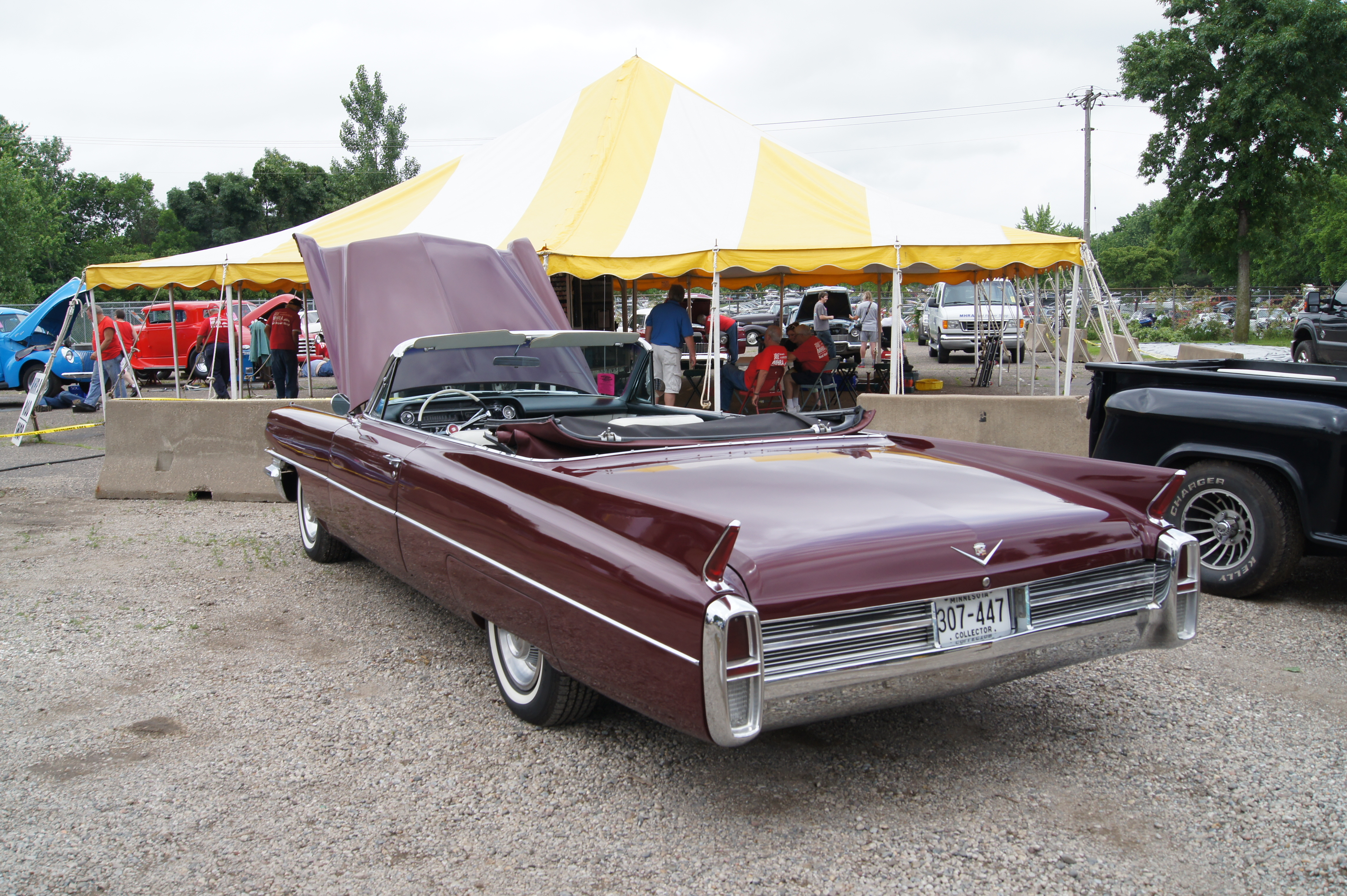 MSRA “BACK TO THE 50′s” 40th ANNIVERSARY June 21-23, 2013 State Fairgrounds St. Paul Minnesota More Car Pictures